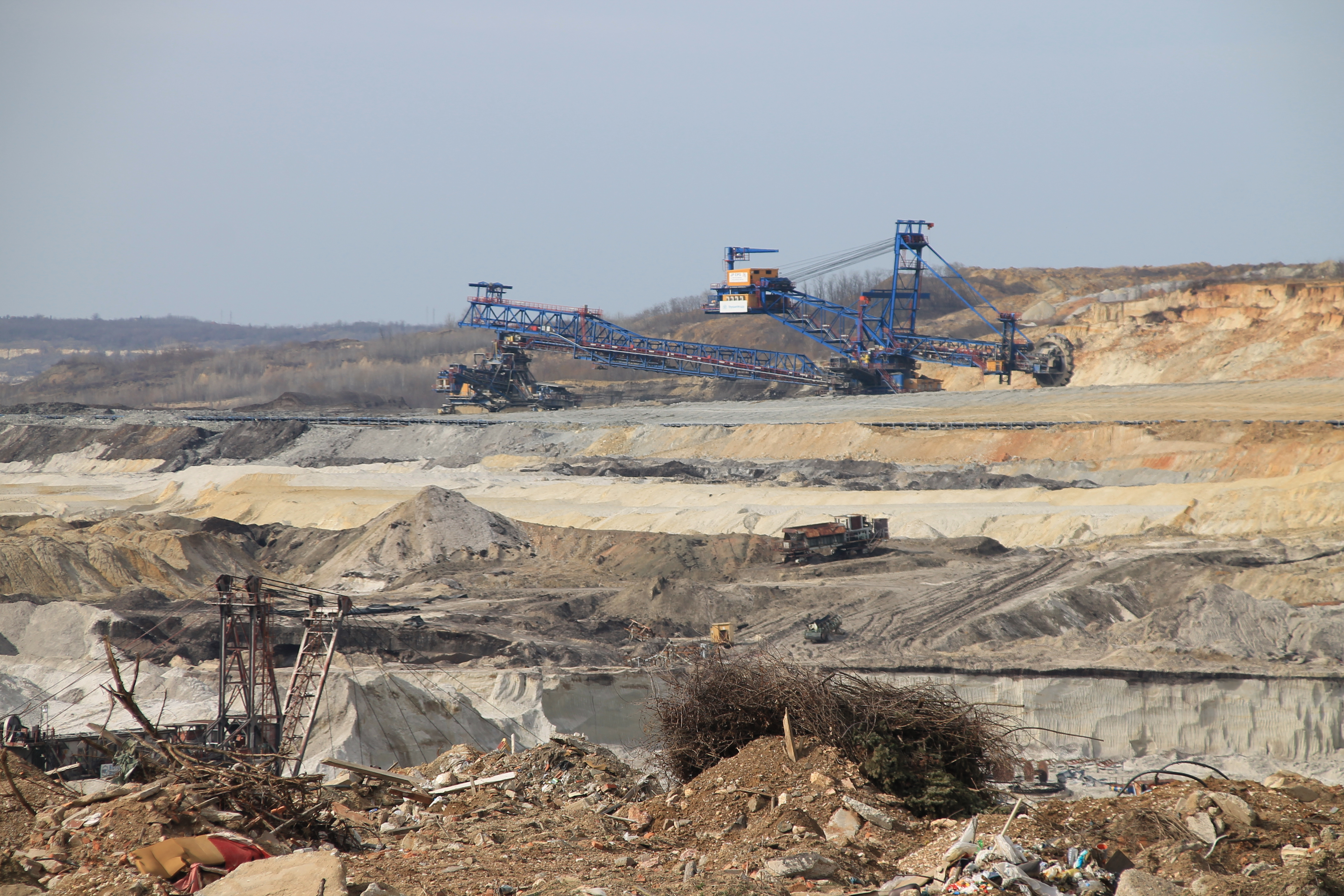 Kolubara mining basin